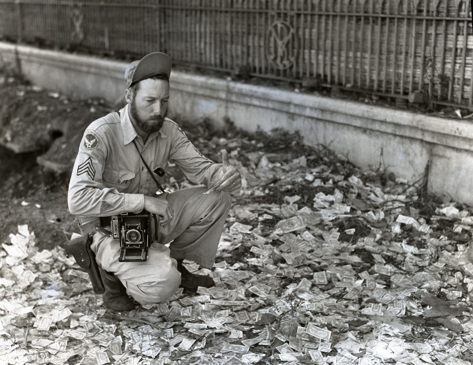 With Jap invasion currency on Rangoon street, 1945 Subject: "photographer, Japanese installations"